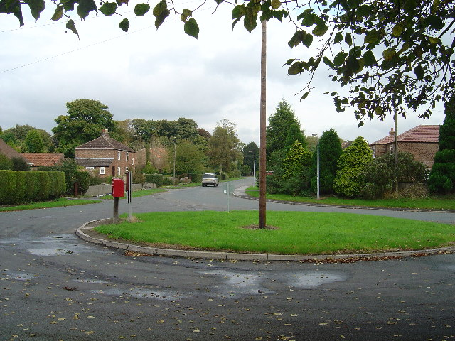 Village of Hayton, East Riding of Yorkshire, England.This village sits on the A1079 Hull - York main road and now seems - like so many villages in this area - to be characterised by the modern infill building which has taken many of the farm yards and paddocks which were there before.